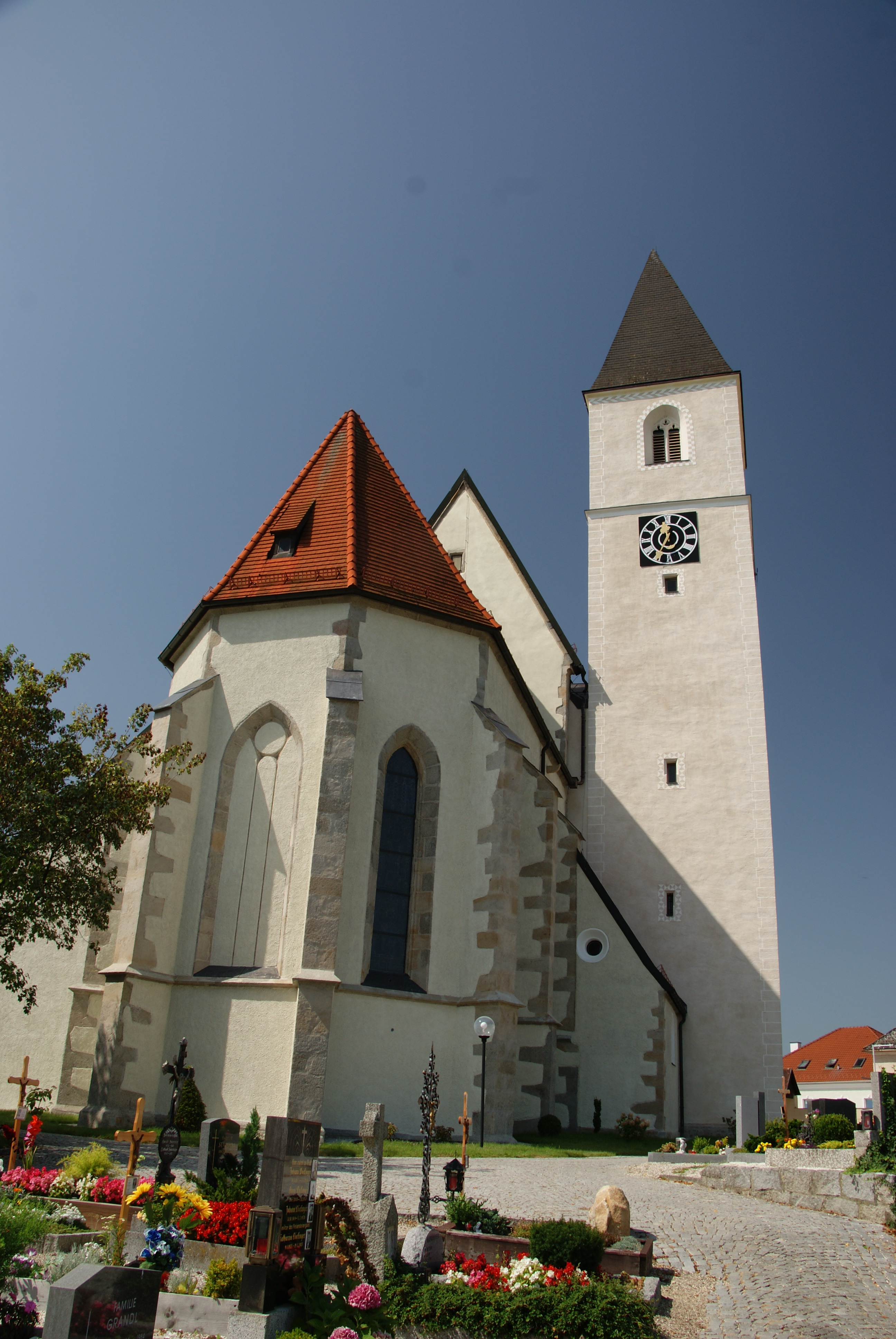 Church in Wartberg